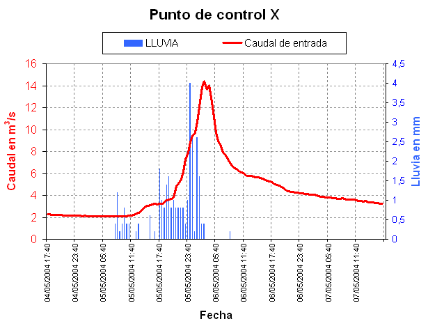 Hydrograph. Avenue of May 2004 in the basin of Turia River,(Guadalaviar), Teruel, Spain. Data from SAIH, Júcar Water Authority.